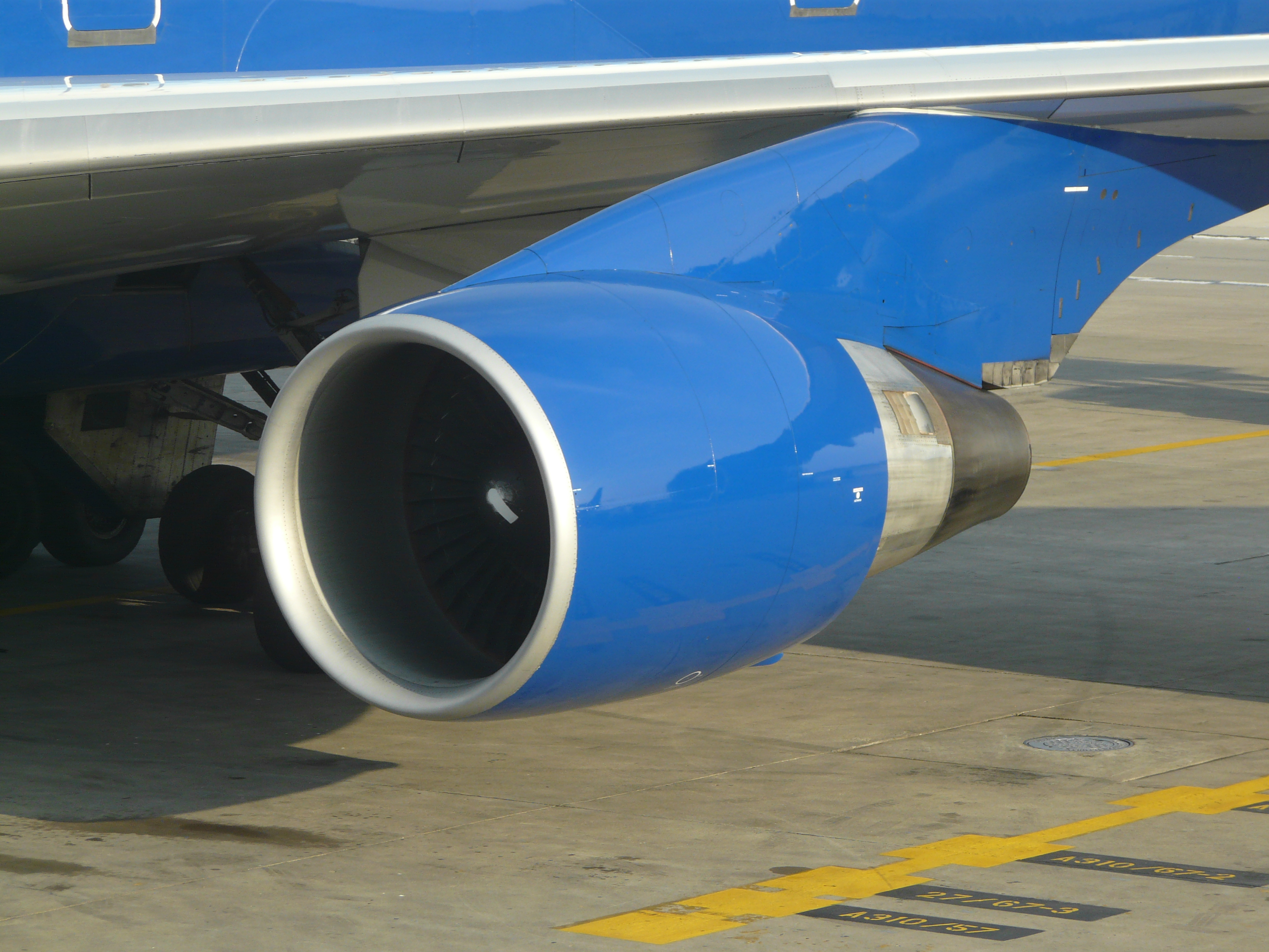 Turbofan aircraft engines.